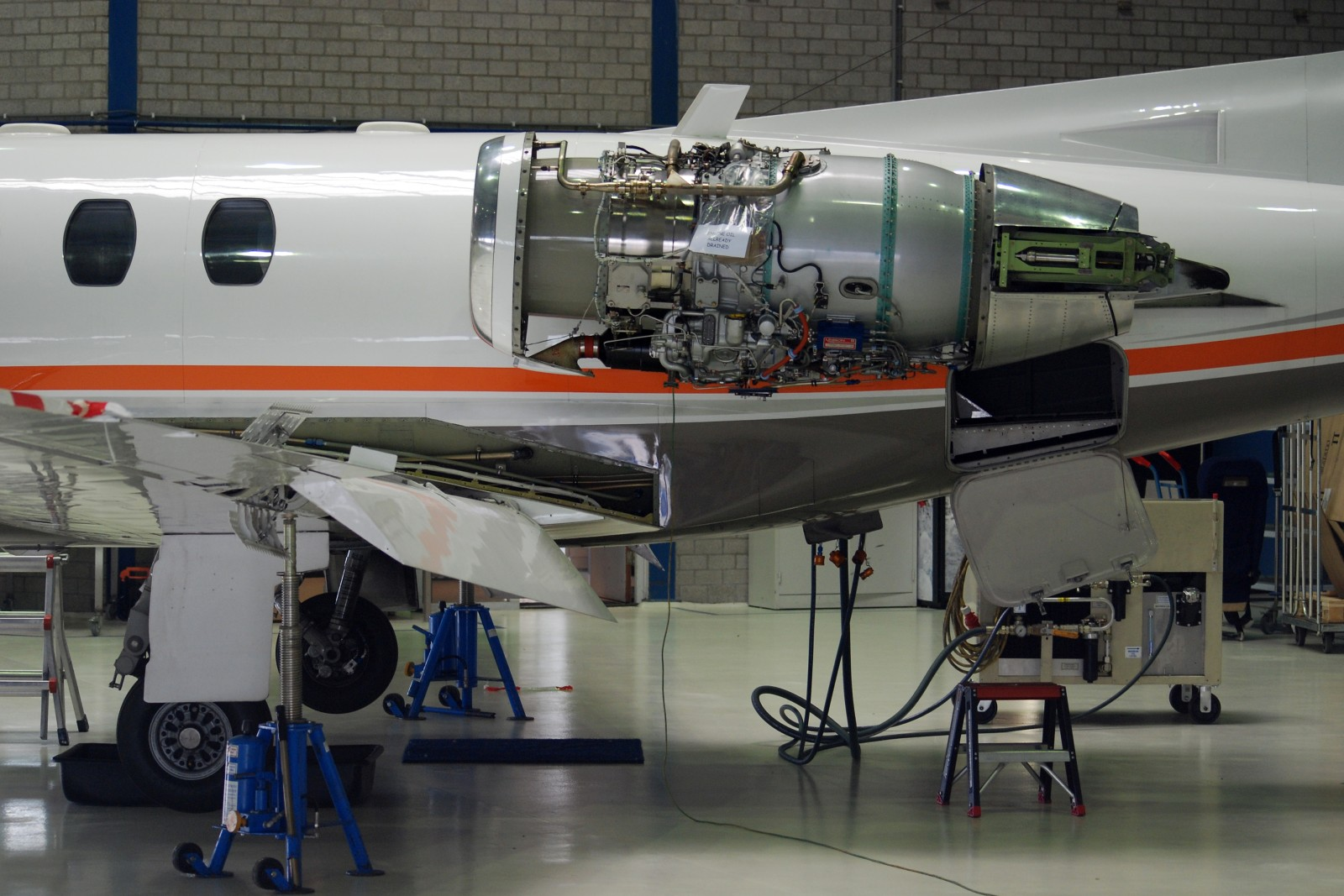 An open door and a nice shot of the engine Amsterdam - schiphol at the schiphol East hangar